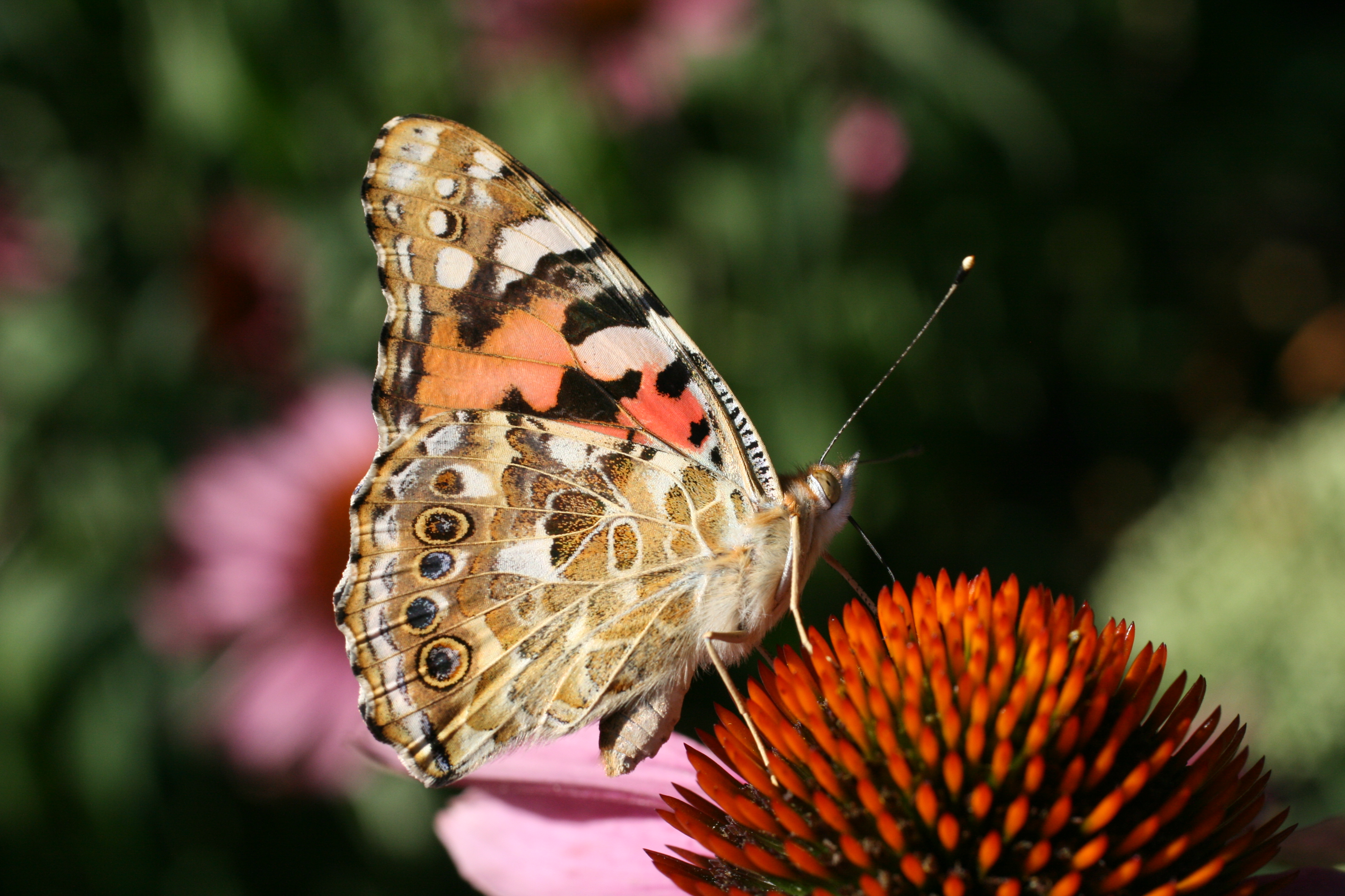 Cynthia cardui seen in Folkets Park in Malmö, Sweden.